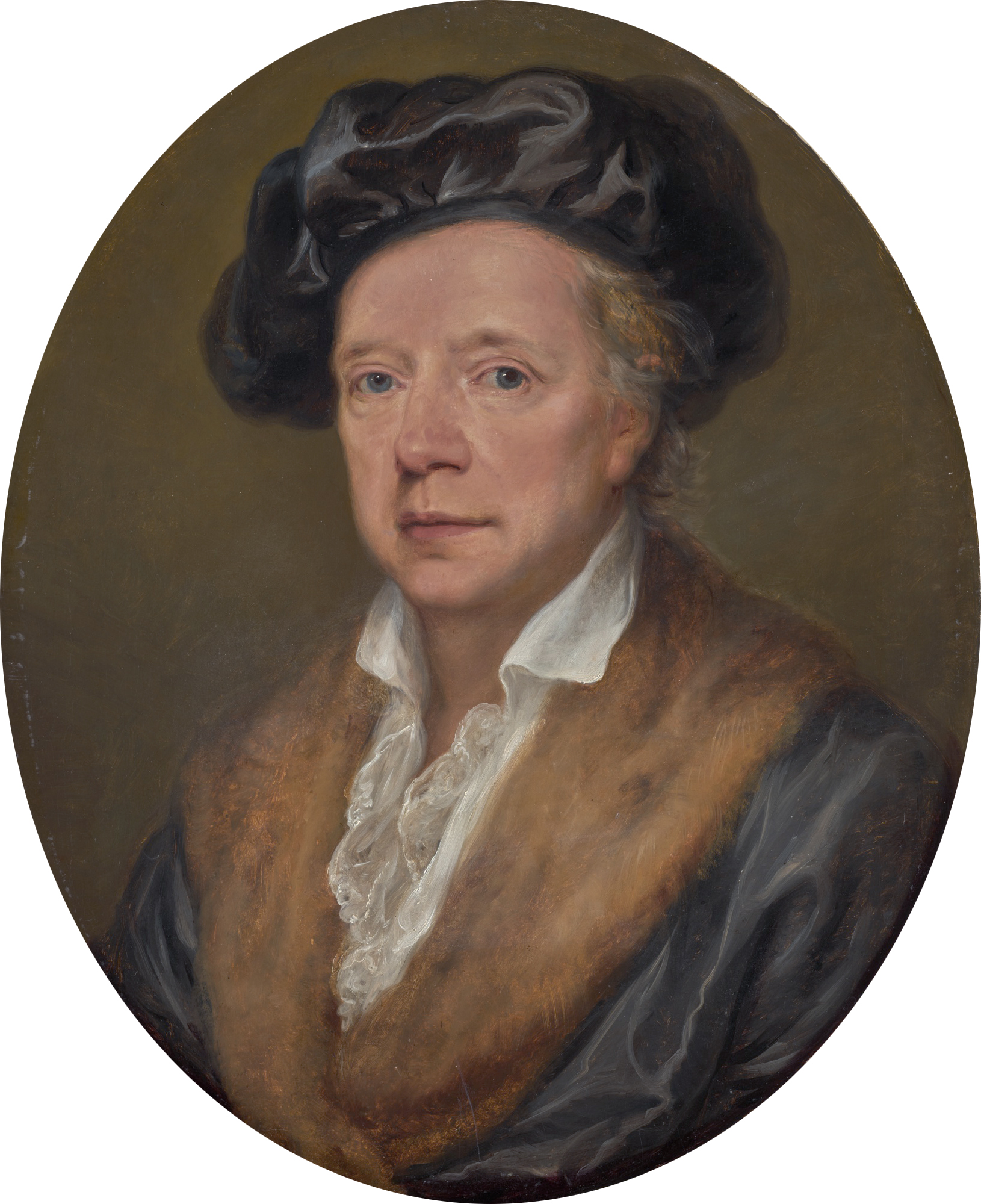 Johann Friedrich Reiffenstein (1719–1793) oil on canvas 63.2 x 51.5 cm 1762